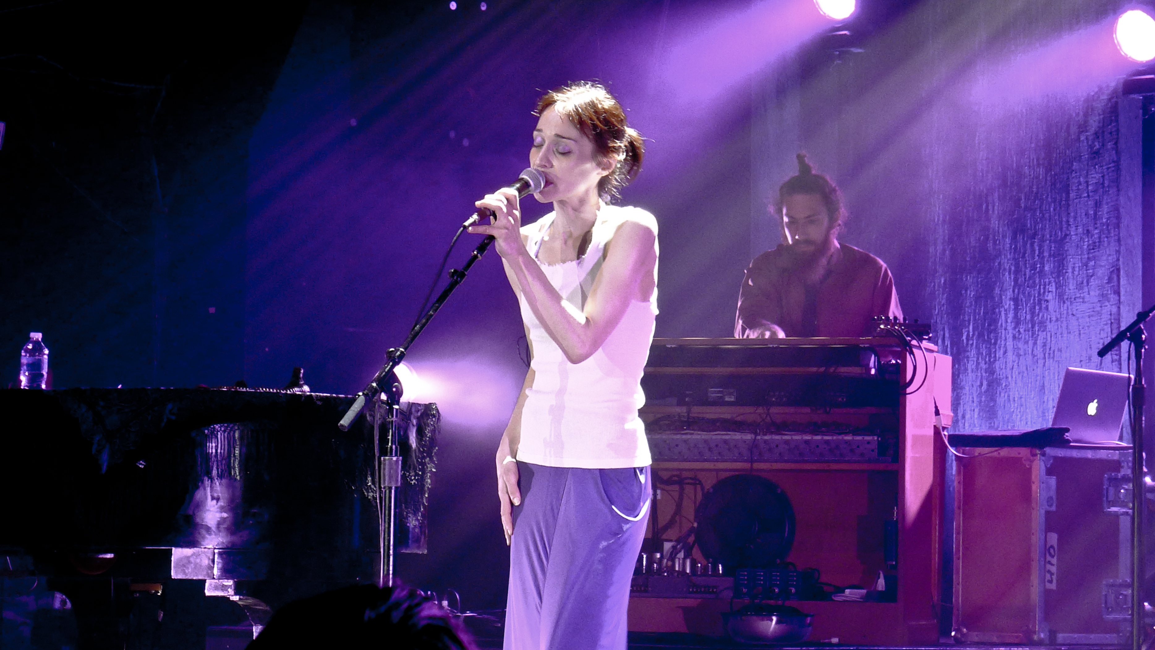 Fiona Apple on tour, 2012.